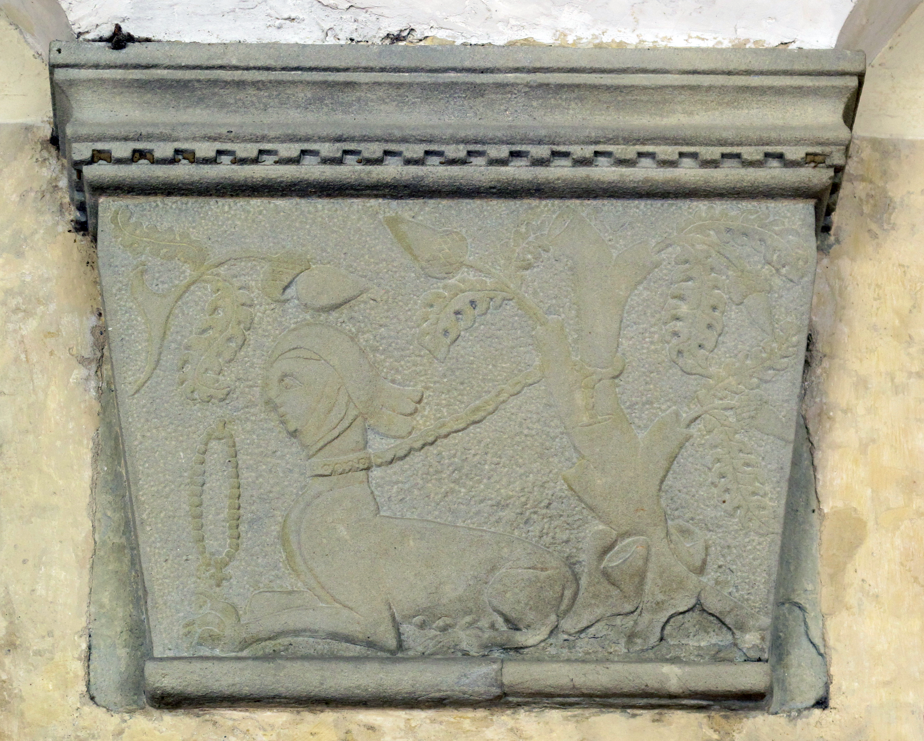 Villa Le Brache - Stories of the Argonauts